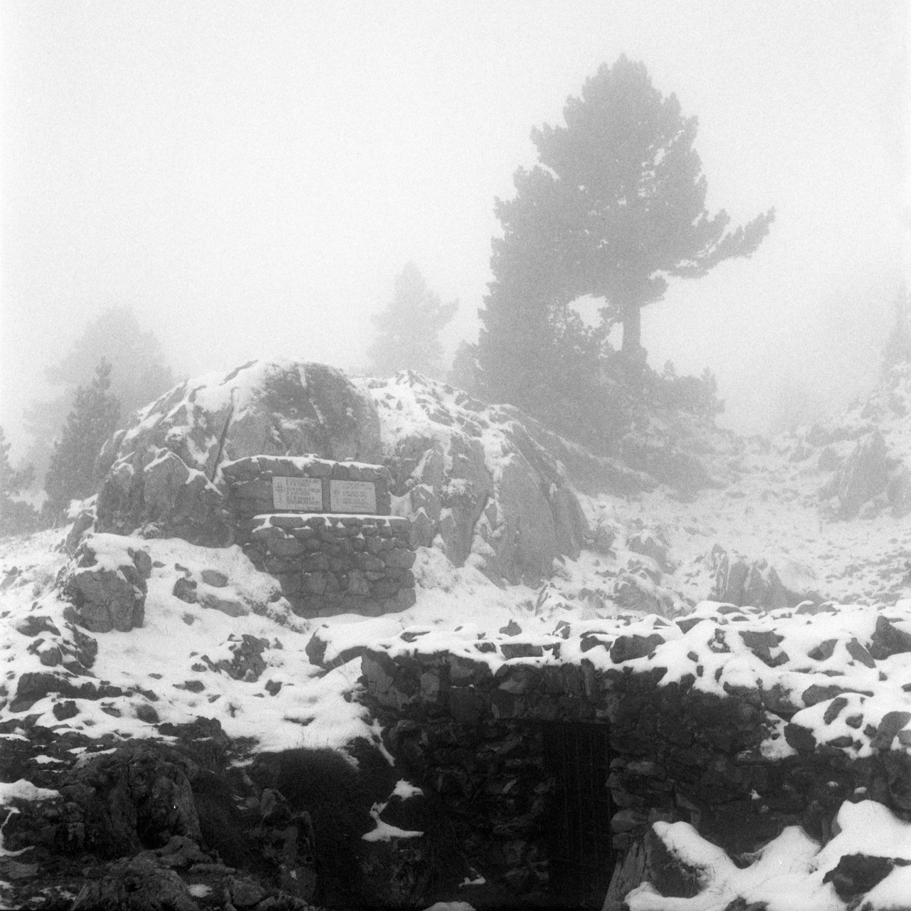 The Lépineux abyss entry in fogg, Pierre Saint-Martin pass, Pyrénées Atlantiques, France